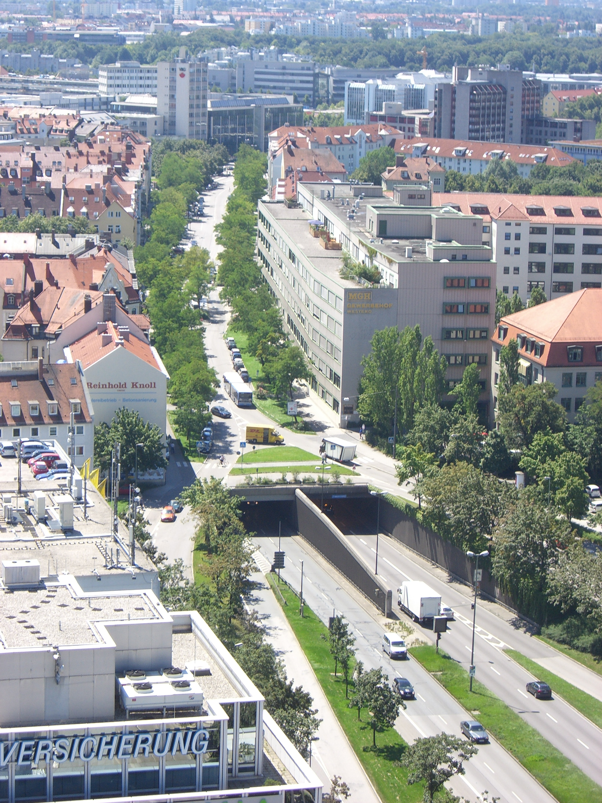 Aerial photograph of Trappentreustraße and -tunnel in Munich, Bavarian